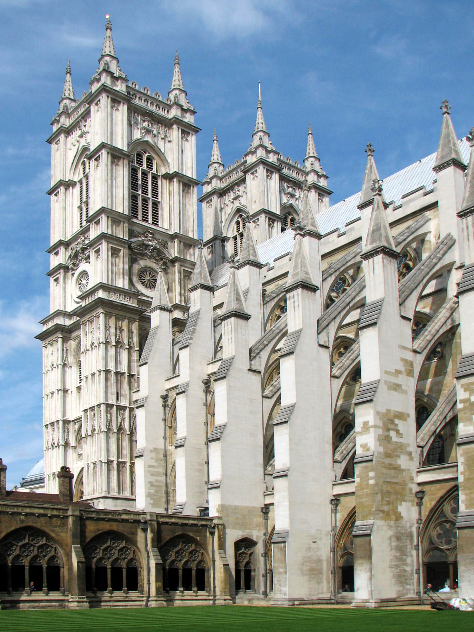 Exterior of Westminster Abbey with the cloister, London, England